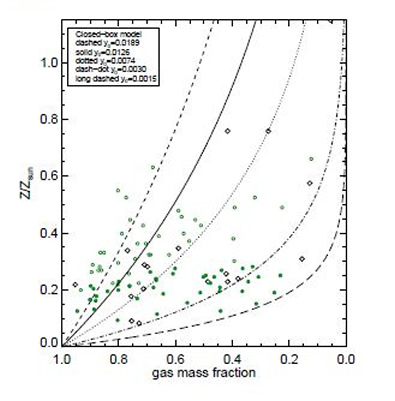 This is a graph taken as a screenshot taken from a publication on . The author of this publication, Ricardo Amorin, has given me permission to use it and as an arXiv publication it is available for free use under Creative Commons Attribution-Noncommercial-ShareAlike license ( The screenshot was edited by Richard Nowell who has uploaded it for use in the article entitled Pea Galaxy. R.Amorin's email is: .